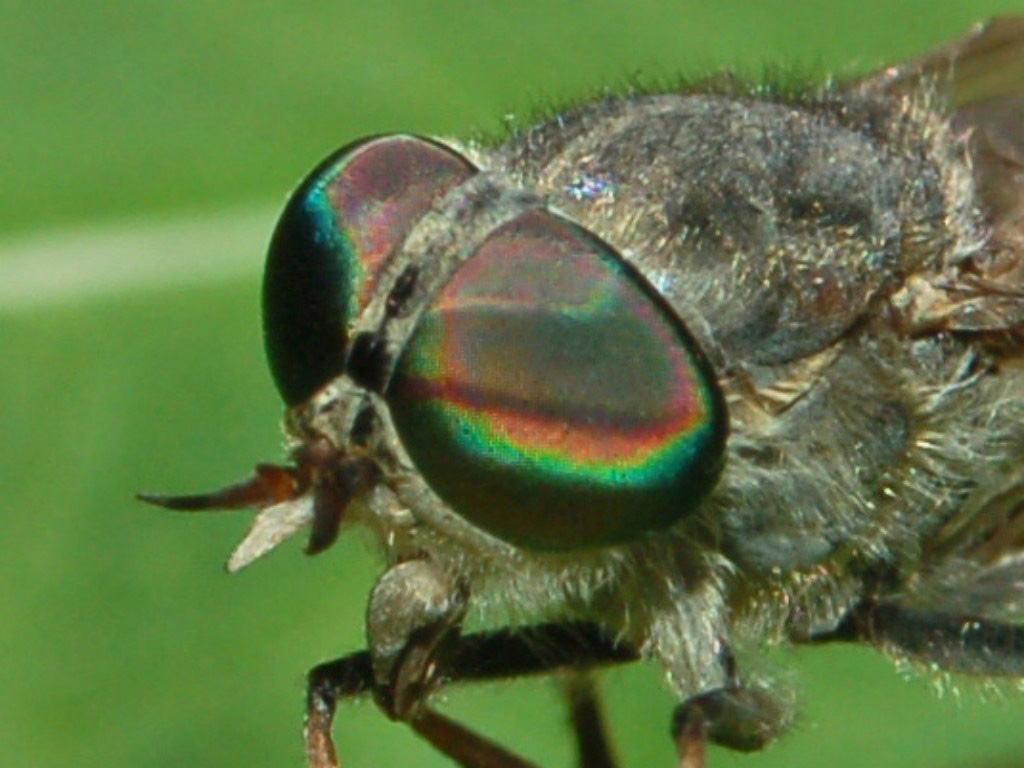 "Tabanus bromius", female. Close-up on eyes. Valle Argentera, Torno, Italy